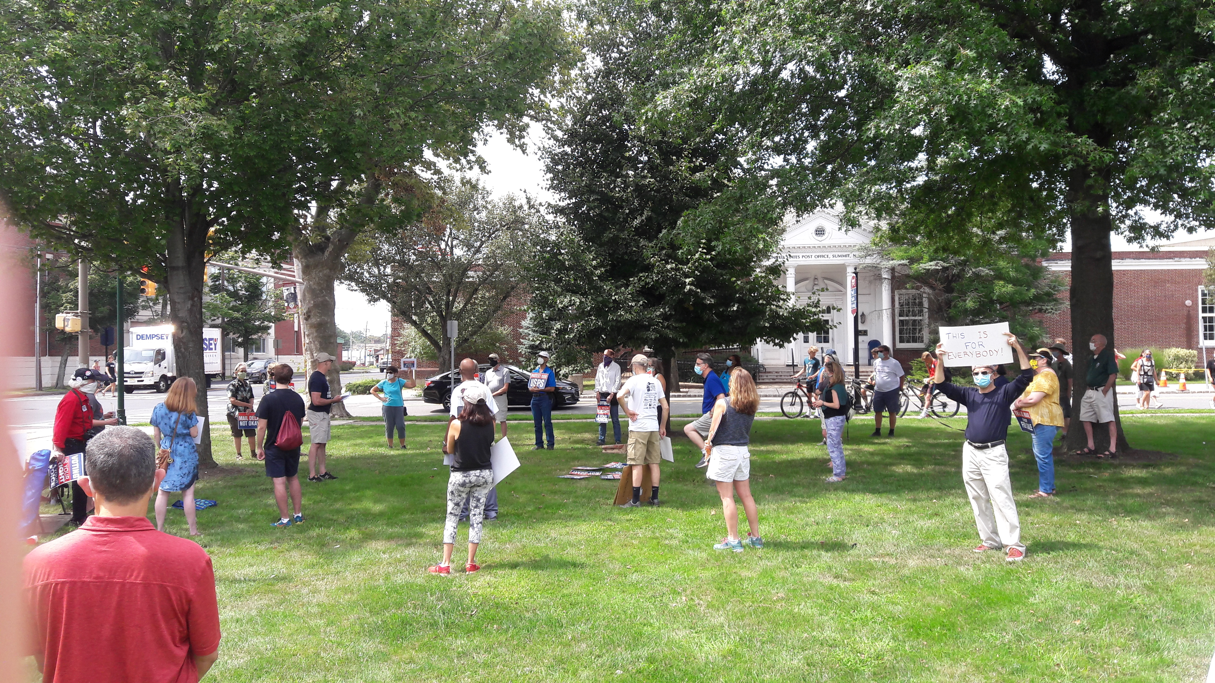 Protesters gathered across from the United States Post Office on Maple Street in Summit, New Jersey, to show support for the post office. Signs such as 'Save the Post Office' were held by the crowd of approximately 100 persons. Protesters wore masks and maintained a distance of six feet from each other as a precaution during the Covid-19 pandemic. A veteran spoke about how he voted by mail while serving overseas in Japan during the 1990s. Lacey Rzeszowski organized the protest, as a founding member of the group 'Summit Marches On', and she read a letter from NJ US senator Menendez about why the post office should be preserved. Councilwoman Susan Hairston, who is a fourth generation resident of Summit, spoke as well. Motorists passing by honked to show support.